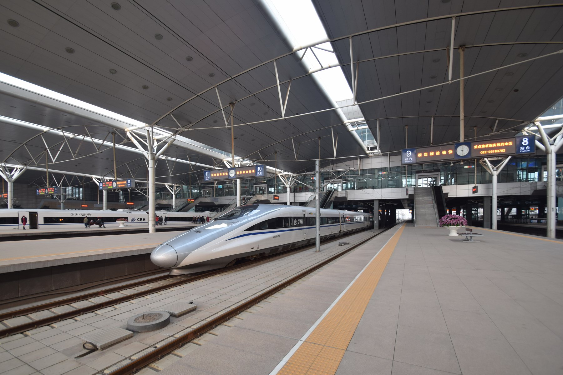 CRH380A EMU at Tianjin-Qinhuangdao High-Speed Railway Platforms of Tianjin Railway Station